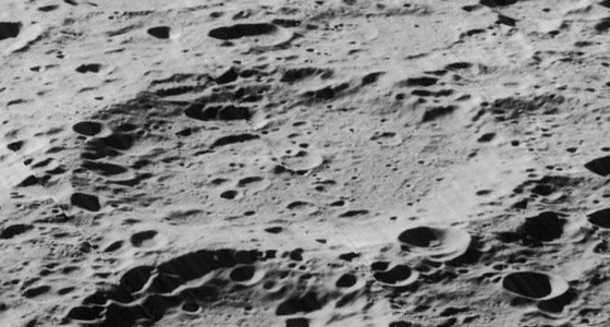 Oblique view of Avogadro, on the far side of the moon, facing west.